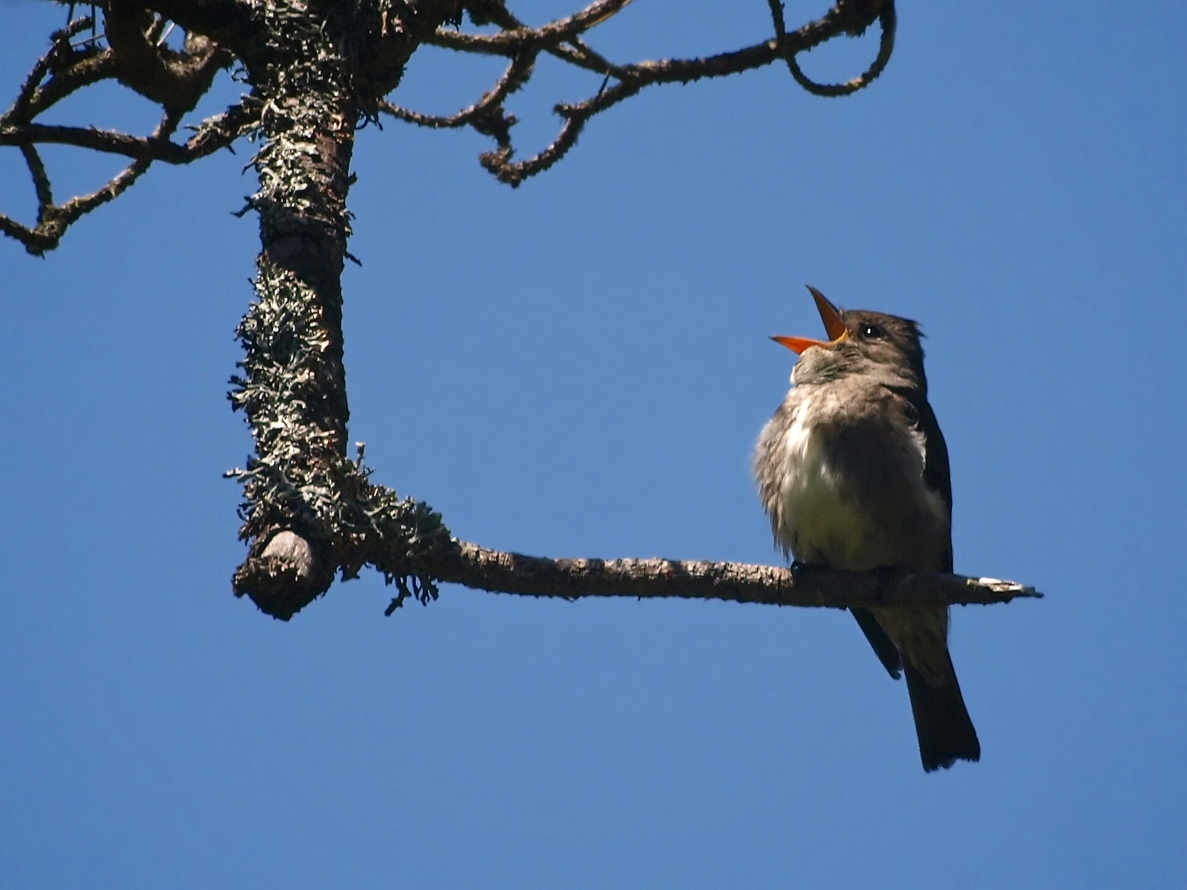 Contopus cooperi, Mendocino Coast Botanical Gardens in Fort Bragg.